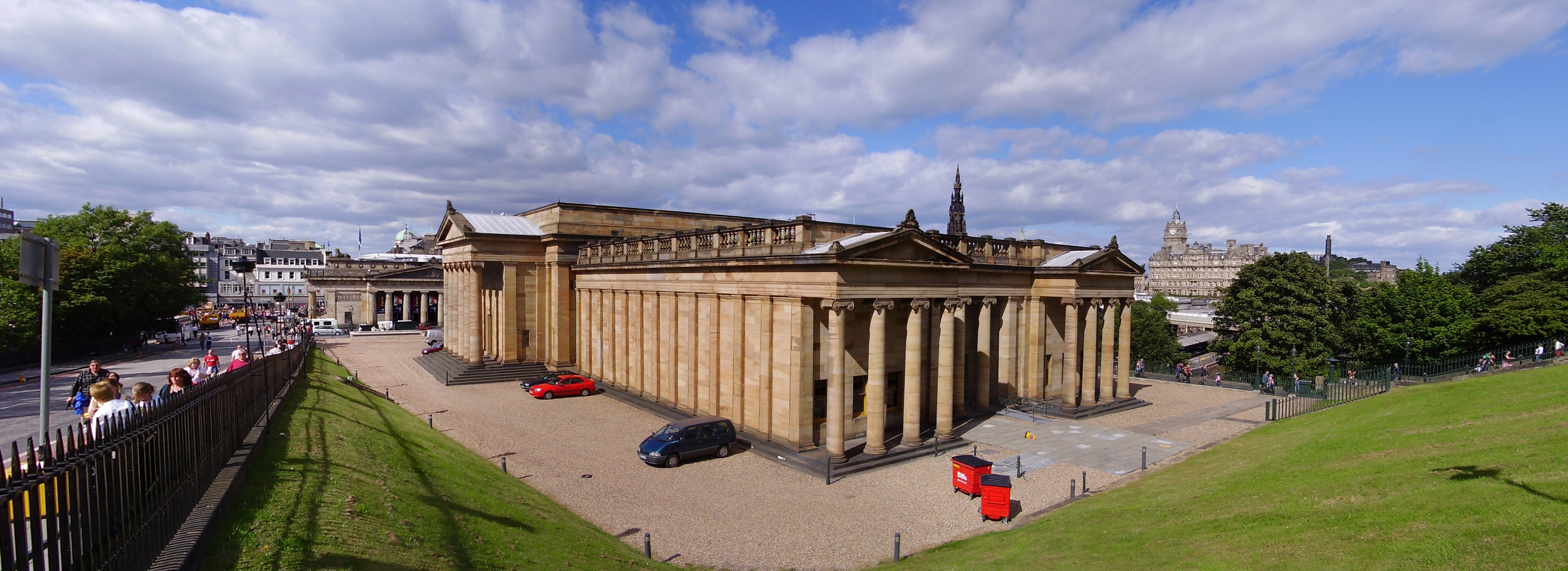 The Mound in Edinburgh with the National Gallery of Scotland and the Royal Scottish Academy Building seen from the south. Own photos, stitched with hugin and enblend. I do recommend to use Image:National Gallery of Scotland restitch1 2005-08-07.jpg which is based on the same original photos but is stitched again with a newer version of hugin and enblend.